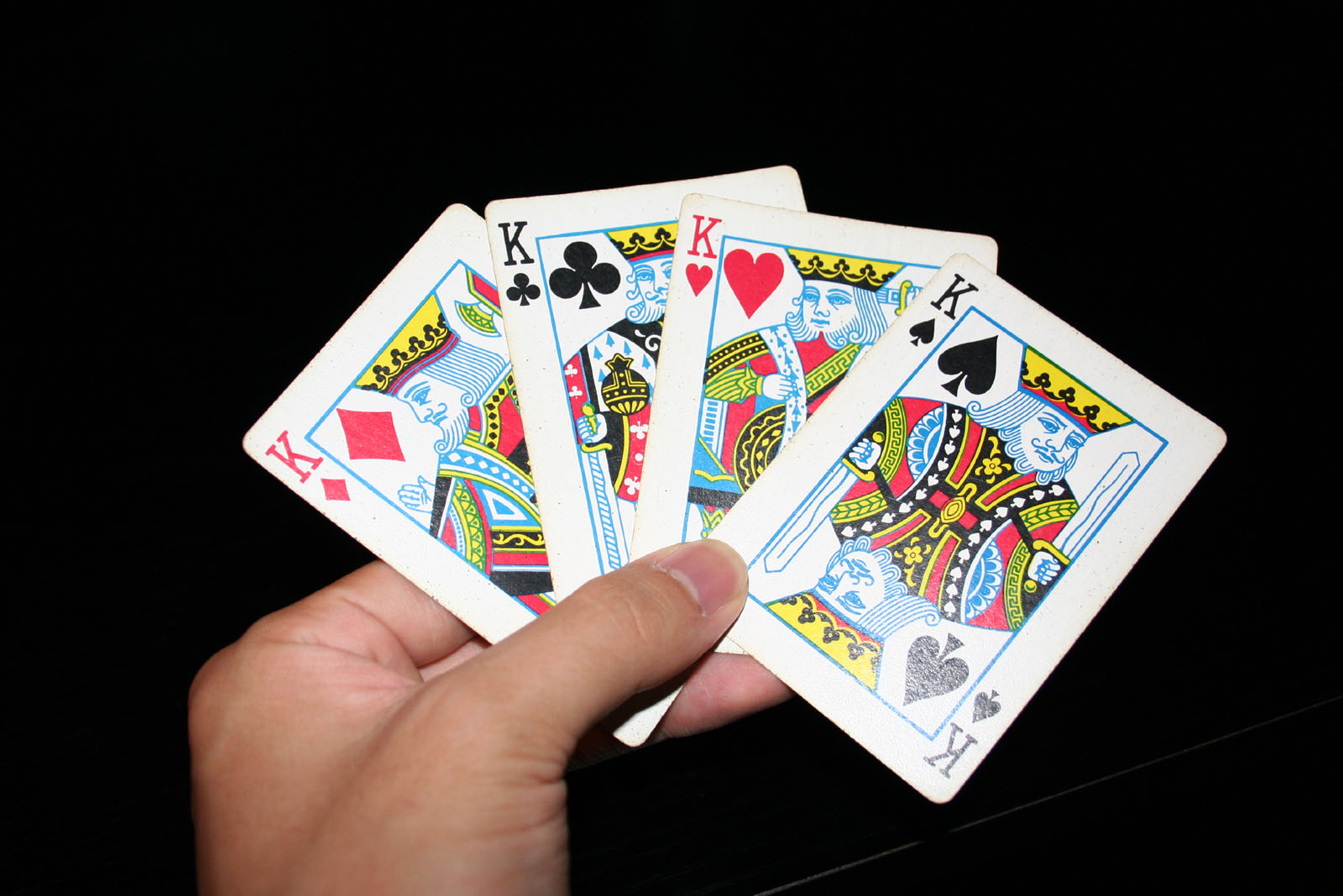 A hand holding the four Kings in a standard deck of cards. Notice King of Hearts is the only King with no mustache. He is also the only King dubbed as the "Suicidal King" because he looks like he's stabbing himself in the back of the head.